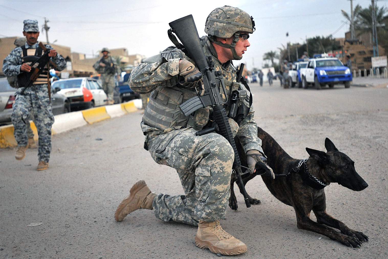 081129-N-1810F-389. FORWARD OPERATING BASE FALCON, Iraq – Staff Sgt. Christopher Ogle, a native of Beaver Creek, Ohio, and military police dog handler, leads his assigned dog, "Liaka," a Dutch Shepherd, along streets in the Hadar community during a mission with Company C, 2nd Battalion, 4th Infantry Regiment, attached to the 1st Brigade Combat Team, 4th Infantry Division, Multi-National Division – Baghdad, and Iraqi National Police on a combined security patrol Nov. 29, in southern Baghdad’s Rashid district.